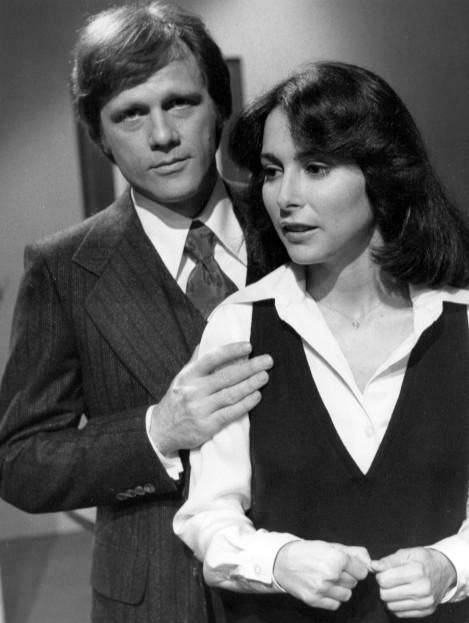 Photo of Leon Russom as Willis Frame and Toni Kalem as Angie Perrini from the daytime drama Another World.